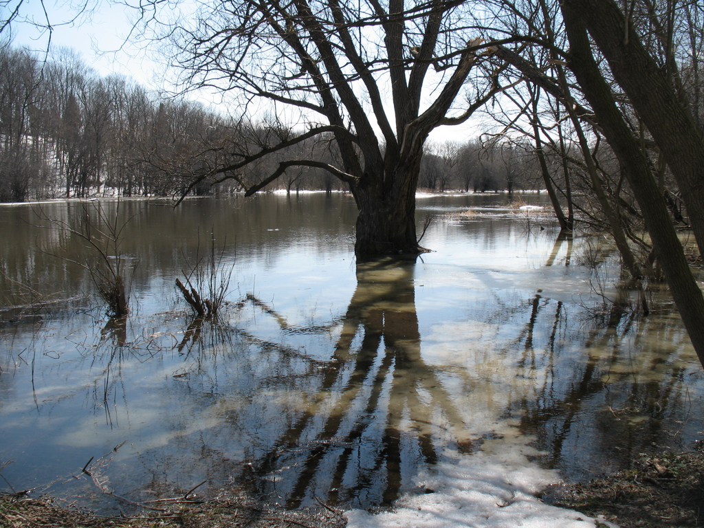 A view of the Eramosa River in Guelph, Ontario, Canada